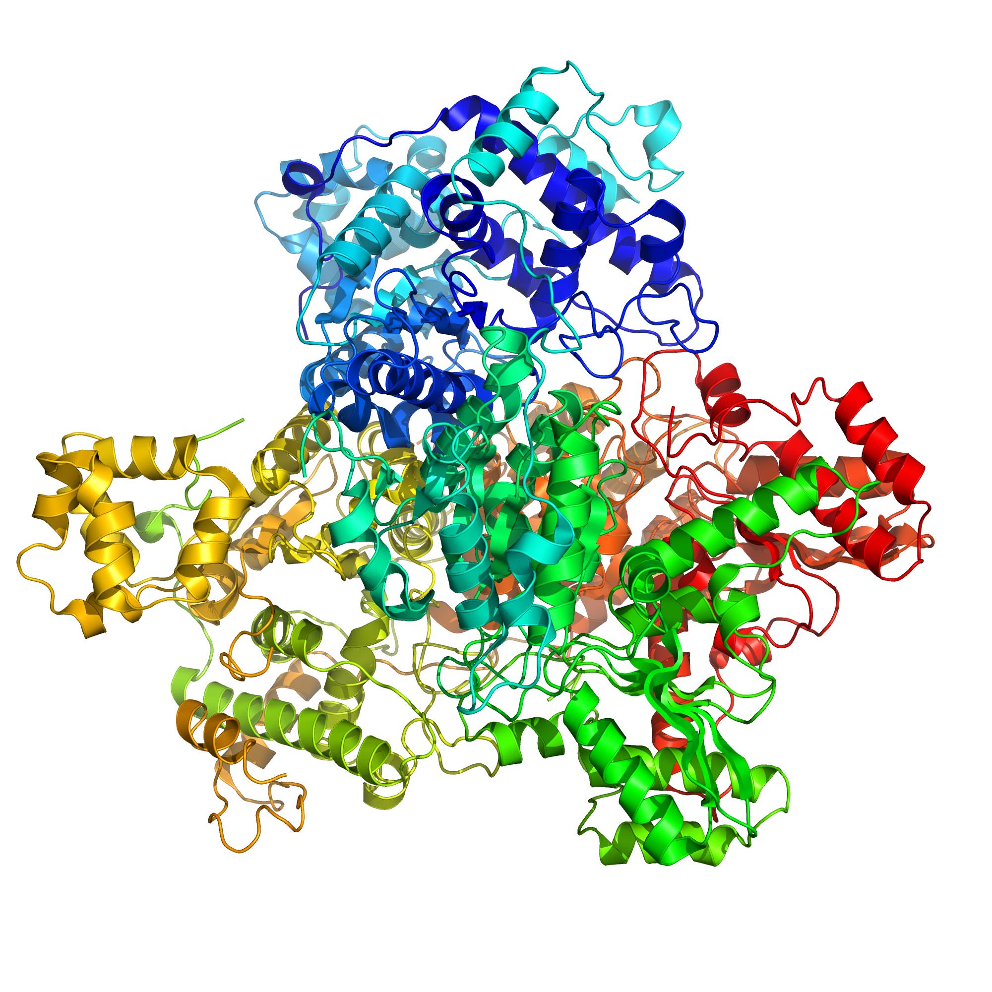 Pyruvate dehydrogenase E1 subunit of E. coli. Colors represent different chains. Structure determined by Arjunan et al. Biochemistry 2002. Created using PyMol.